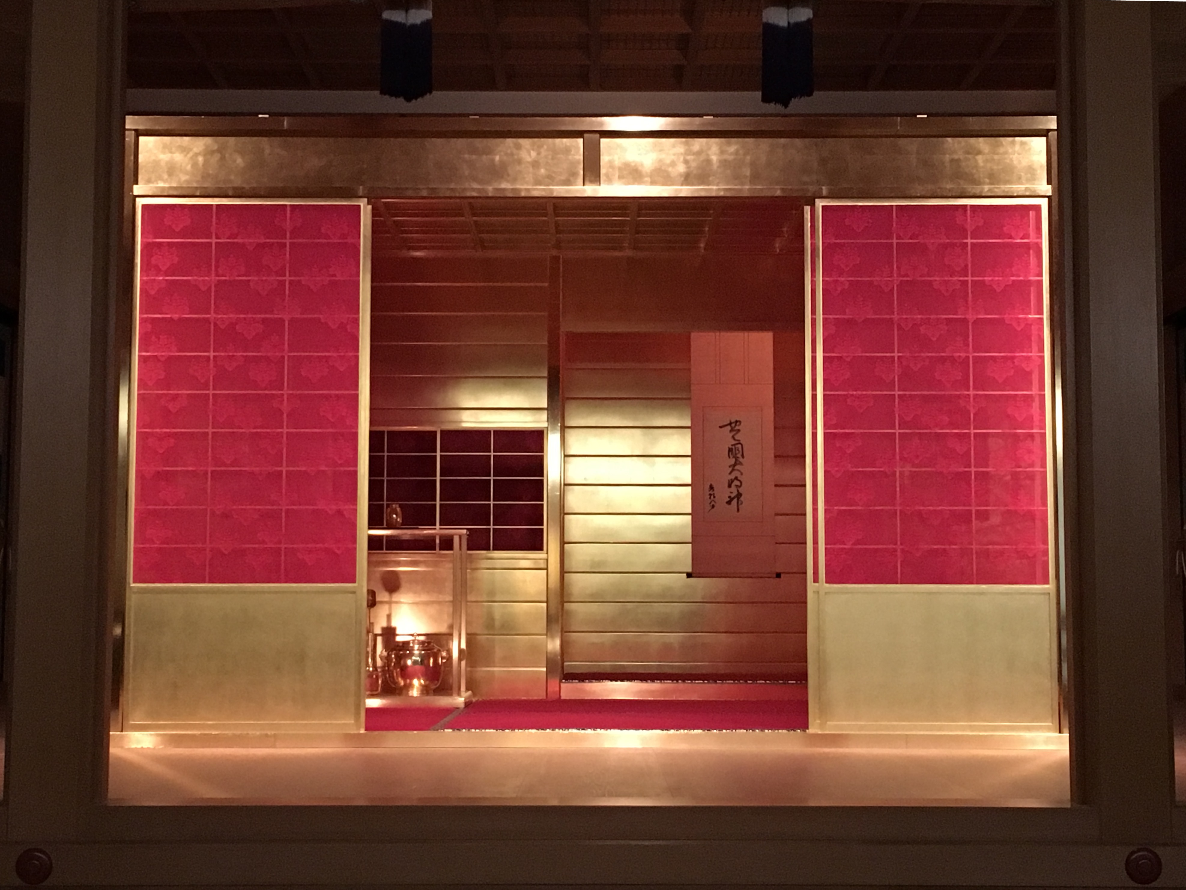 The Golden Tea room in the MOA Museum, Atami, Shizuoka Prefecture, central Japan.